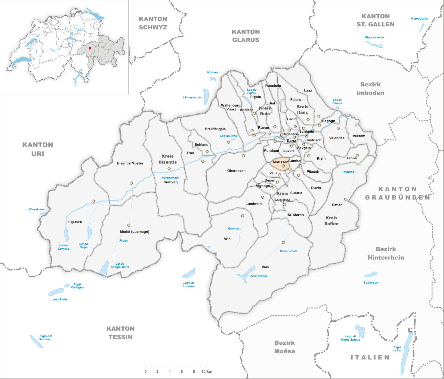 Municipality Morissen